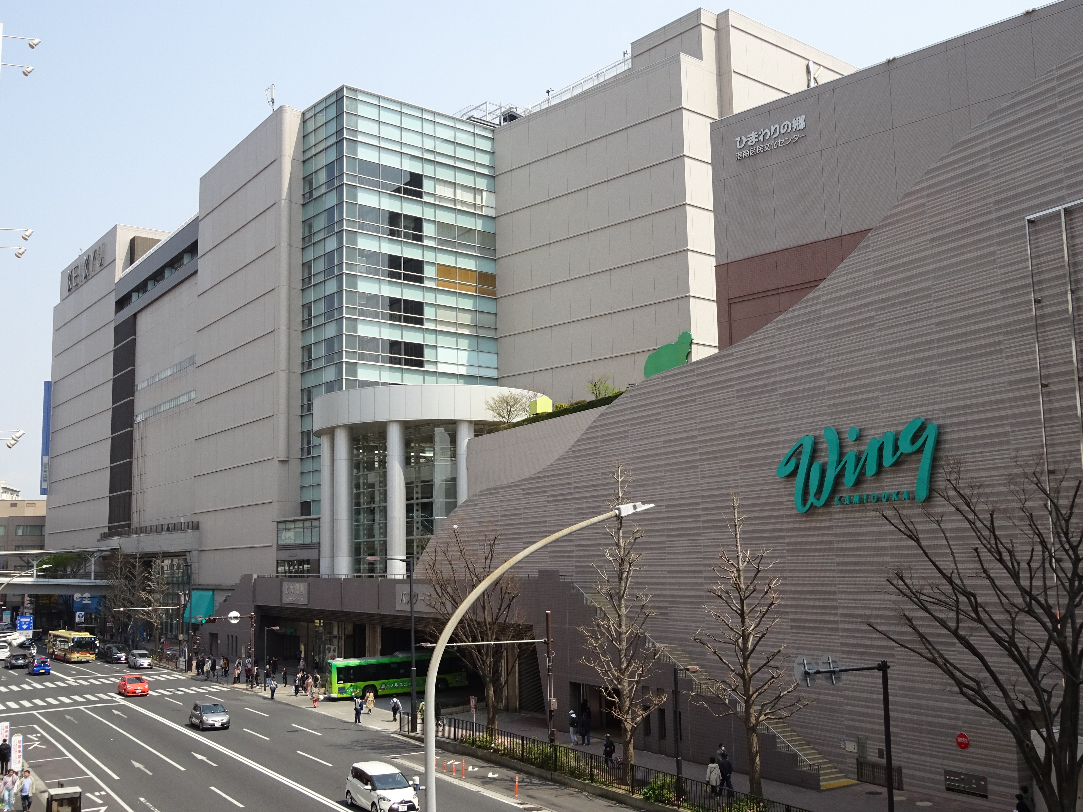 West entrance of Kamiōoka Station